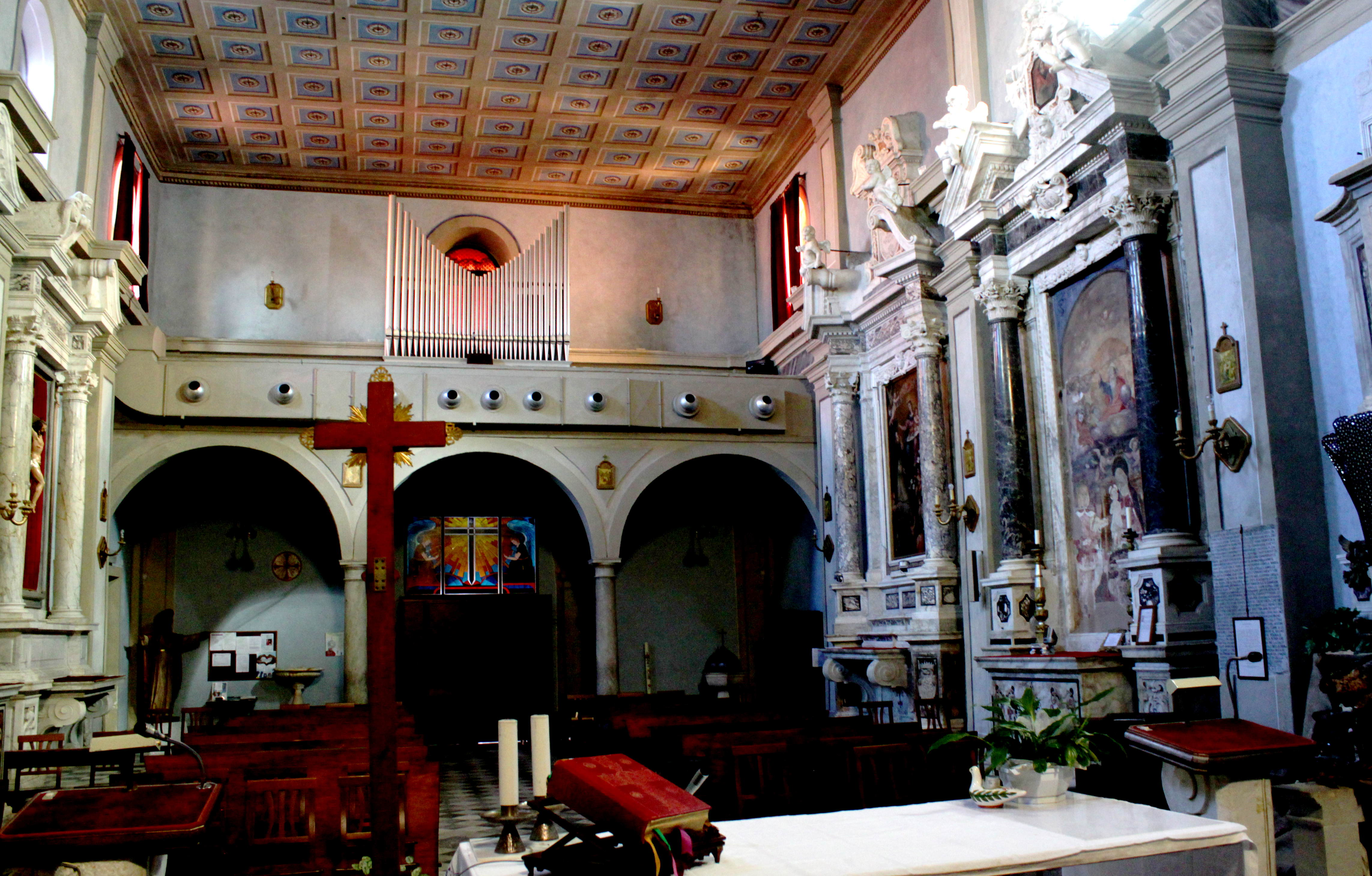 Chiesa S. Genesio Bedizzano interno